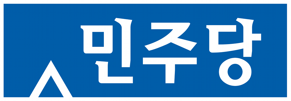 Logotype of Democratic Party (South Korea) from September 2013.